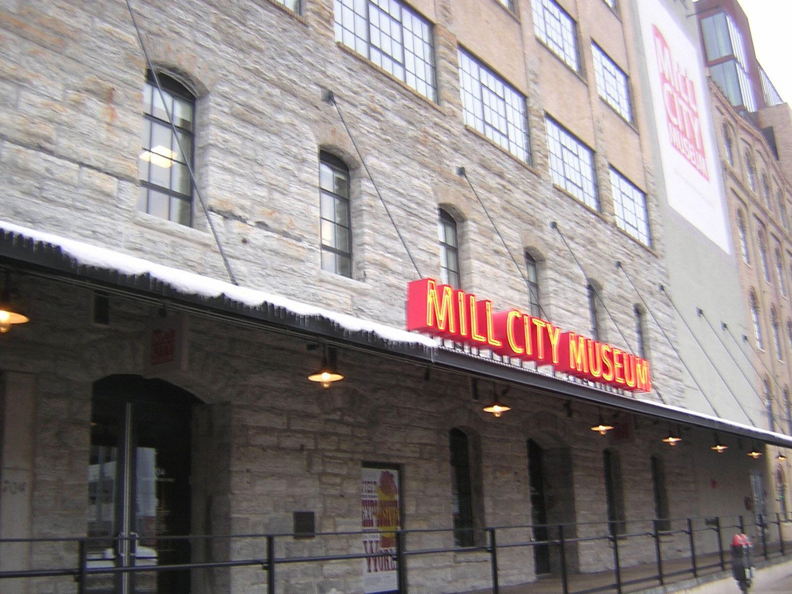 Mill City Museum, part of the Minnesota Historical Society, Washburn "A" Mill, Minneapolis, Minnesota